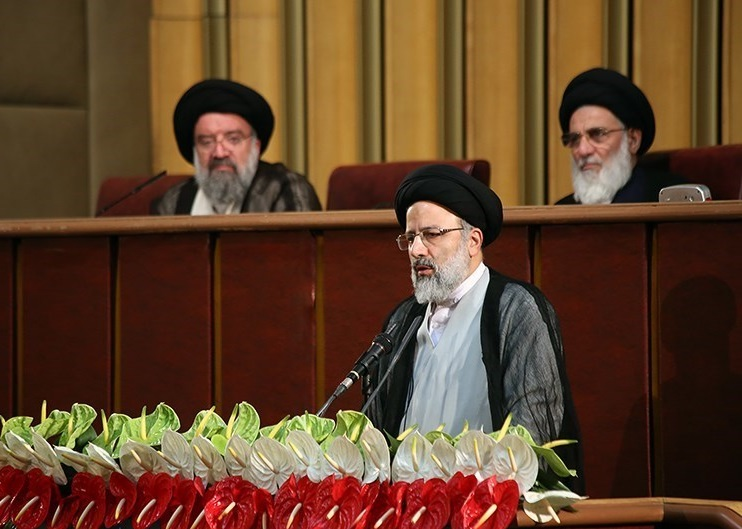 Ebrahim Raeesi speaking at the Assembly of Experts